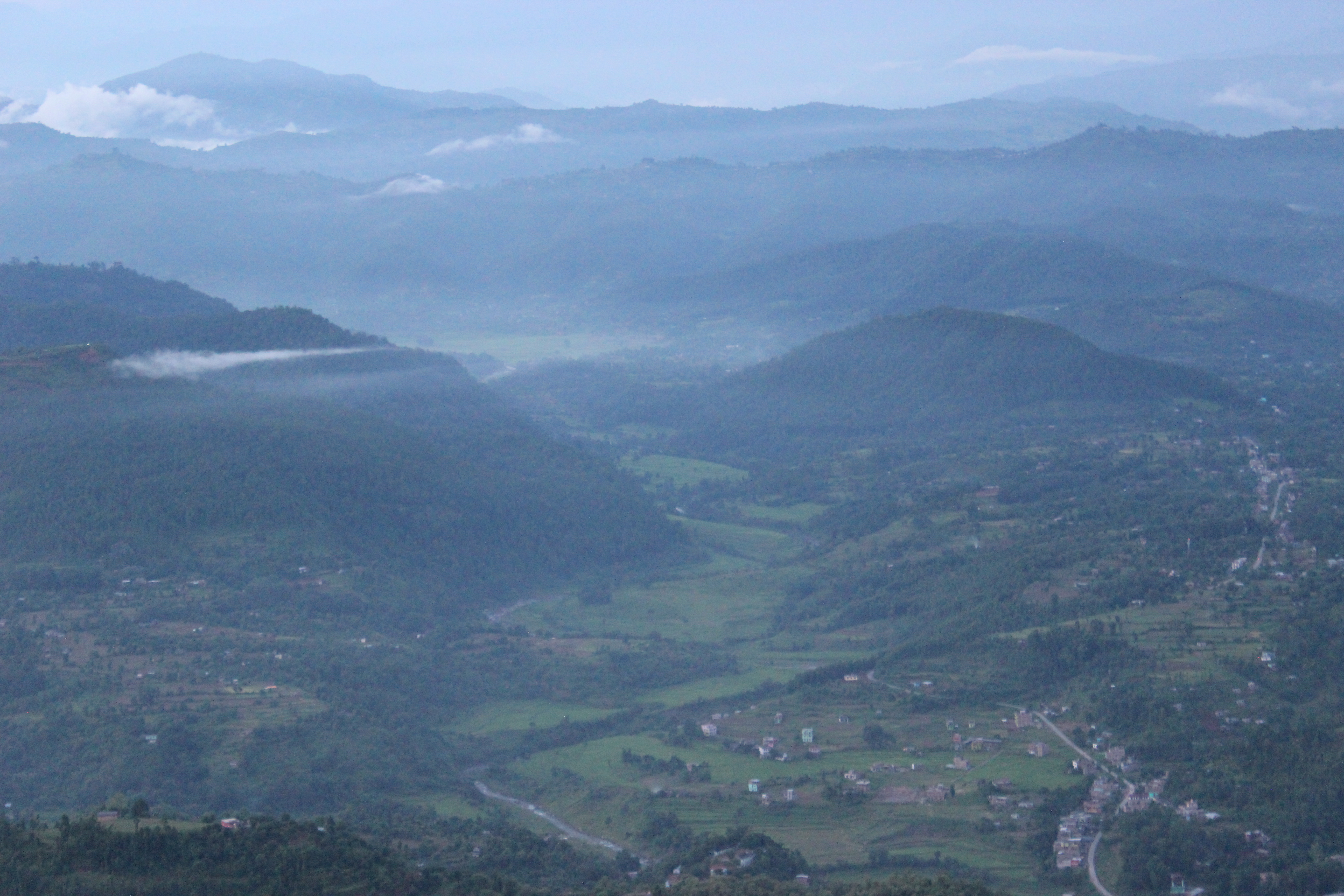 View of Lumjung area from Tudikhel of Bandipur